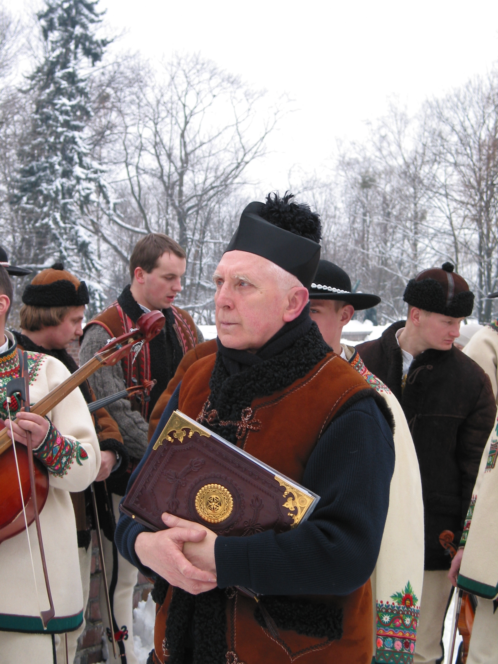 Father Mirosław Drozdek, Pallottine